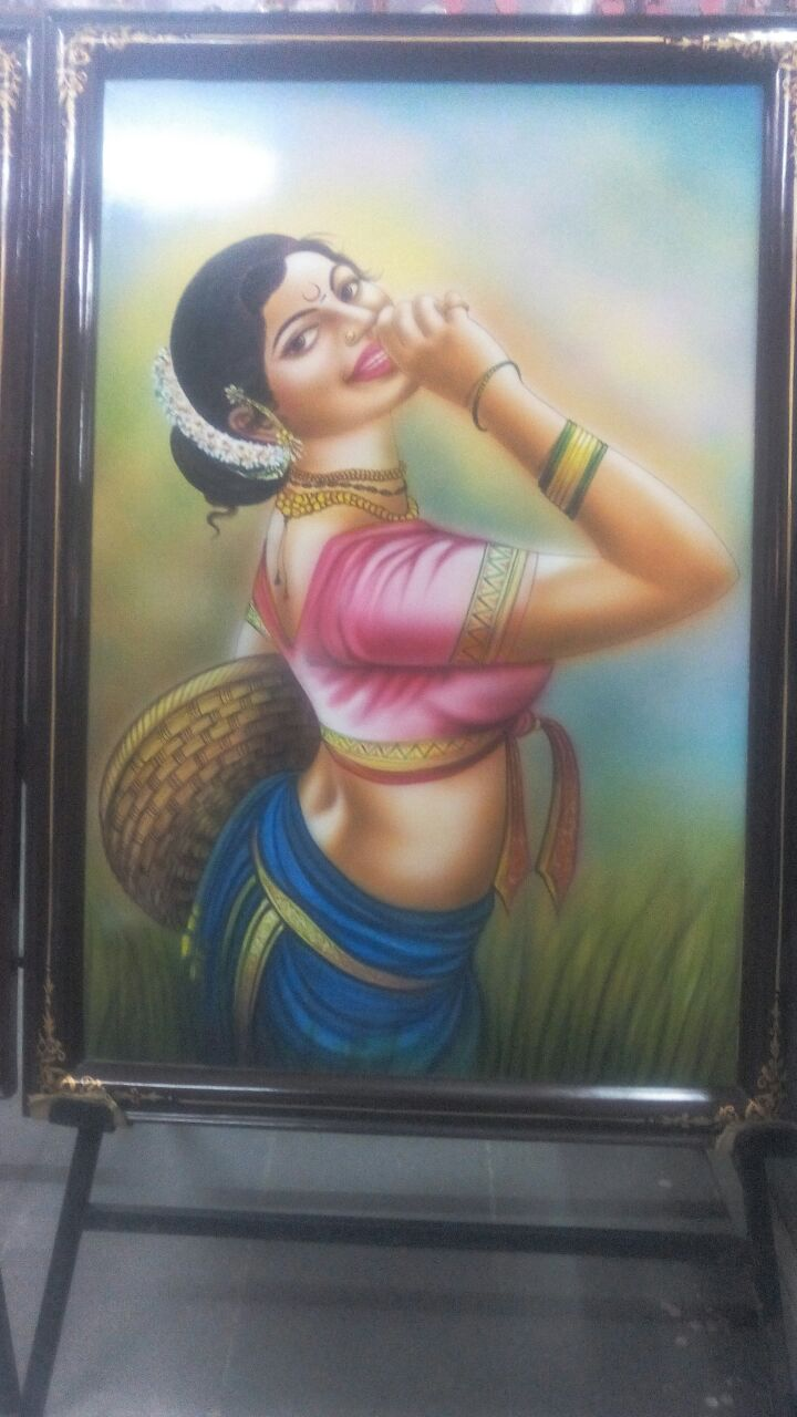 Nirmal Paintings-Village lady